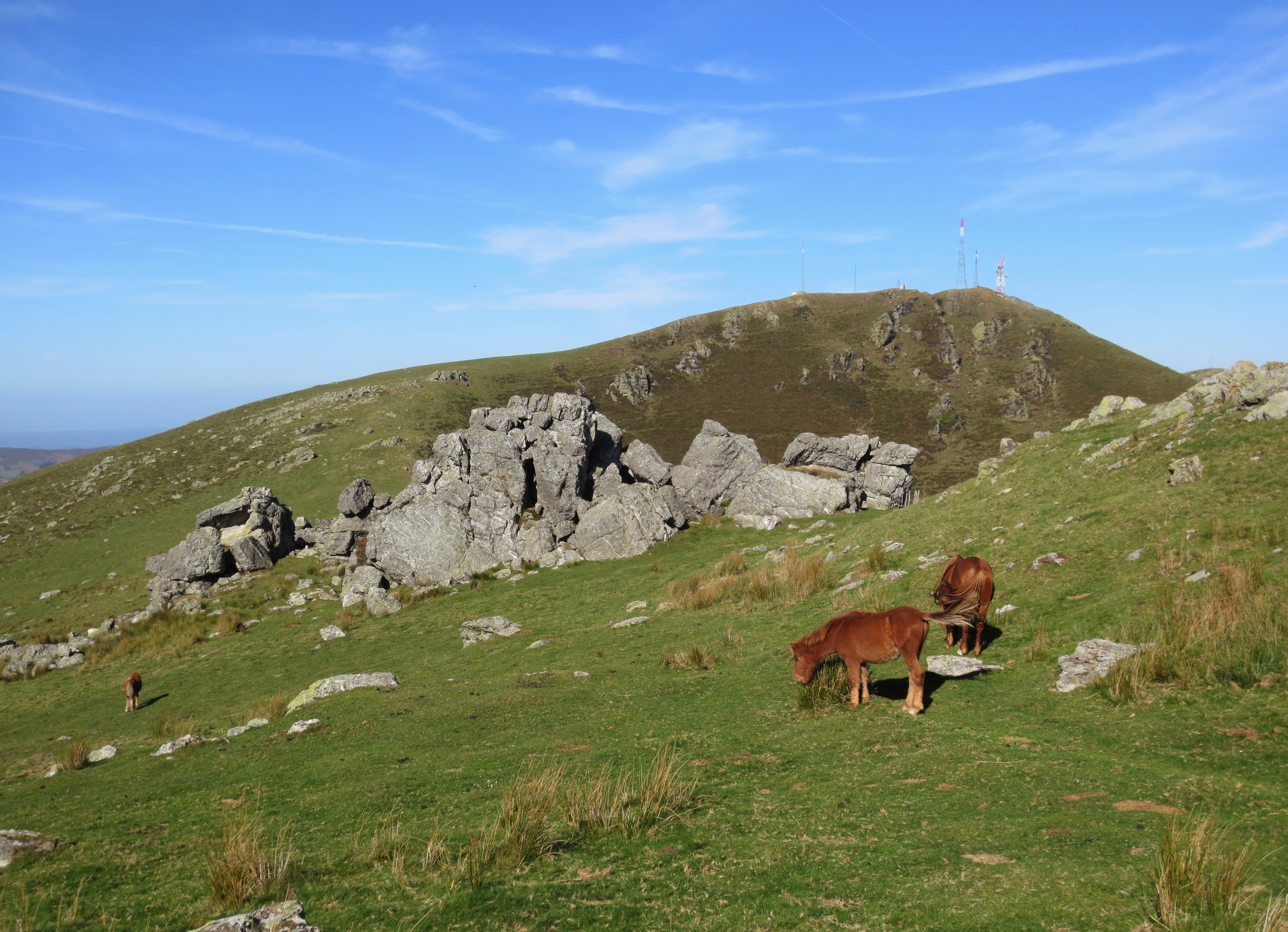 Mountain Baigura in Labourd, French Basque Country